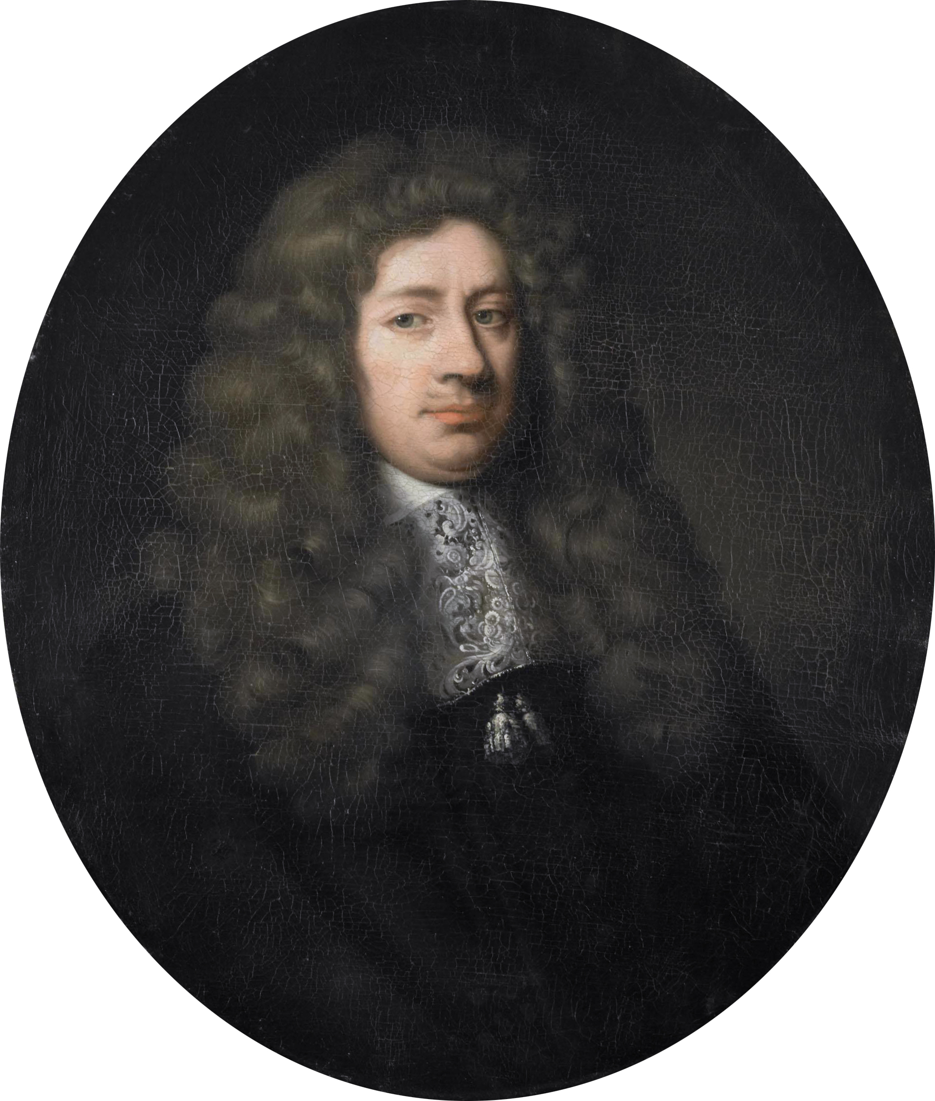 Part of the Rotterdam Dutch East India Company series.